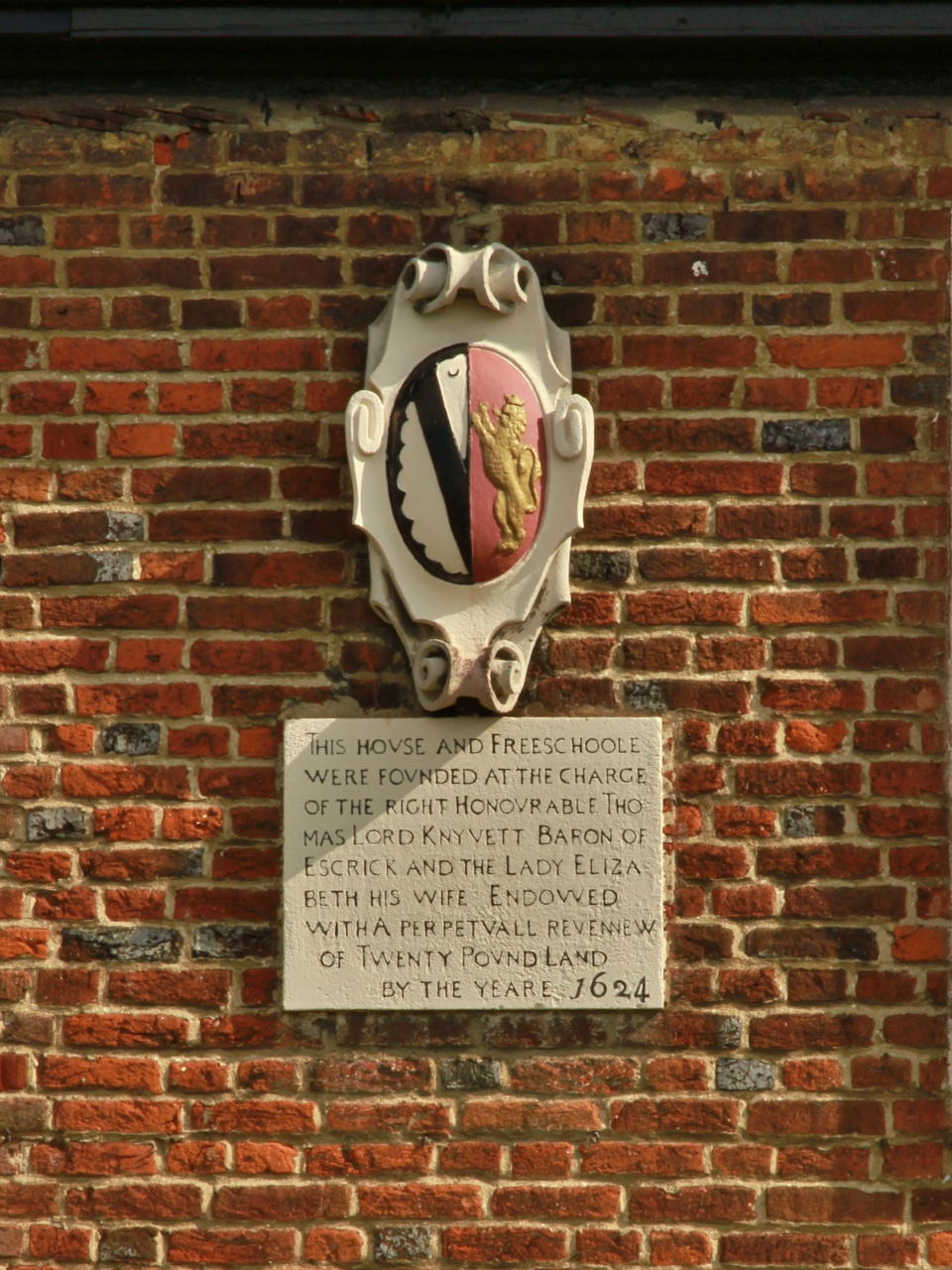 Founder's inscribed tablet and arms, above entrance door of Lord Knyvett's Free School, High Street, Stanwell, Middlesex. Founded by the will of Thomas Knyvet, 1st Baron Knyvet (1545-1622). Showing arms of Kynvett impaling Hayward (Gules, a lion rampant argent crowned or), for his wife Elizabeth Hayward, daughter of Sir Rowland Hayward of Essex. For heraldry see: Gentleman's Magazine, Vol.64, 1794, Part I, pp.313-14, Monument of Thomas Lord Knyvett at Stanwell [1]